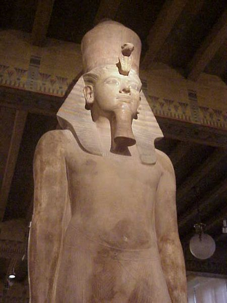 Tutankhamun, Oriental institute, ChicagoKing Tut statue